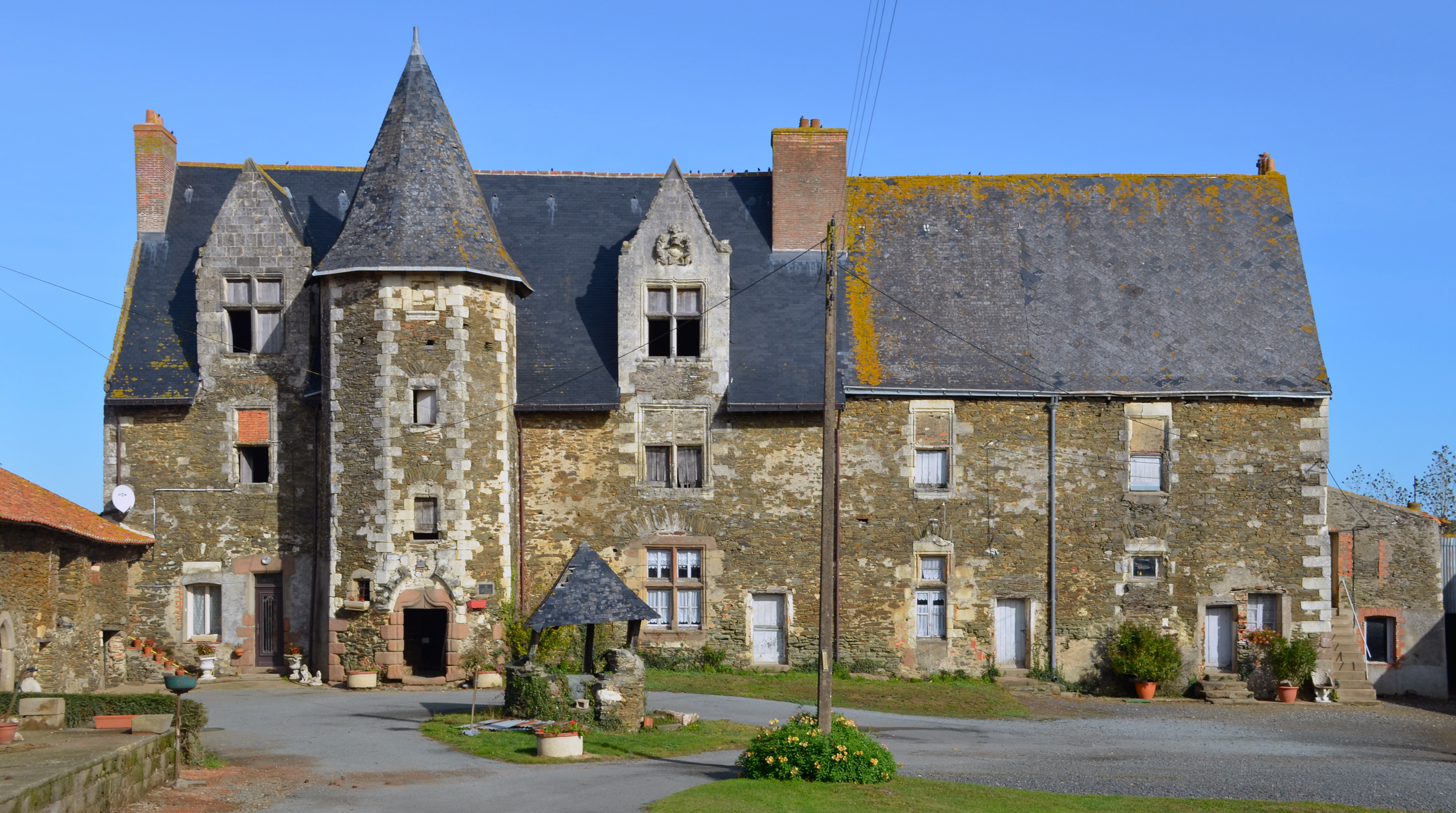 Manor "de la Chaperonnière" - Jallais (Maine-et-Loire) - France .